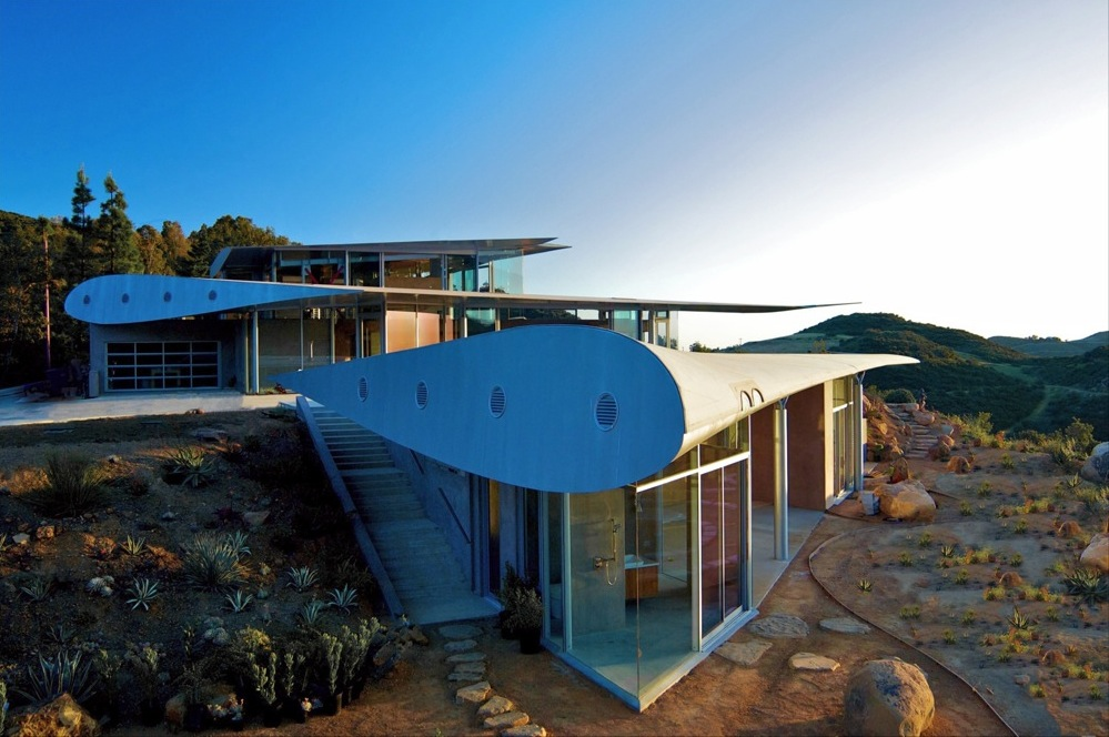 The 747 Wing House Viewed From the North. Photo By Carson Leh